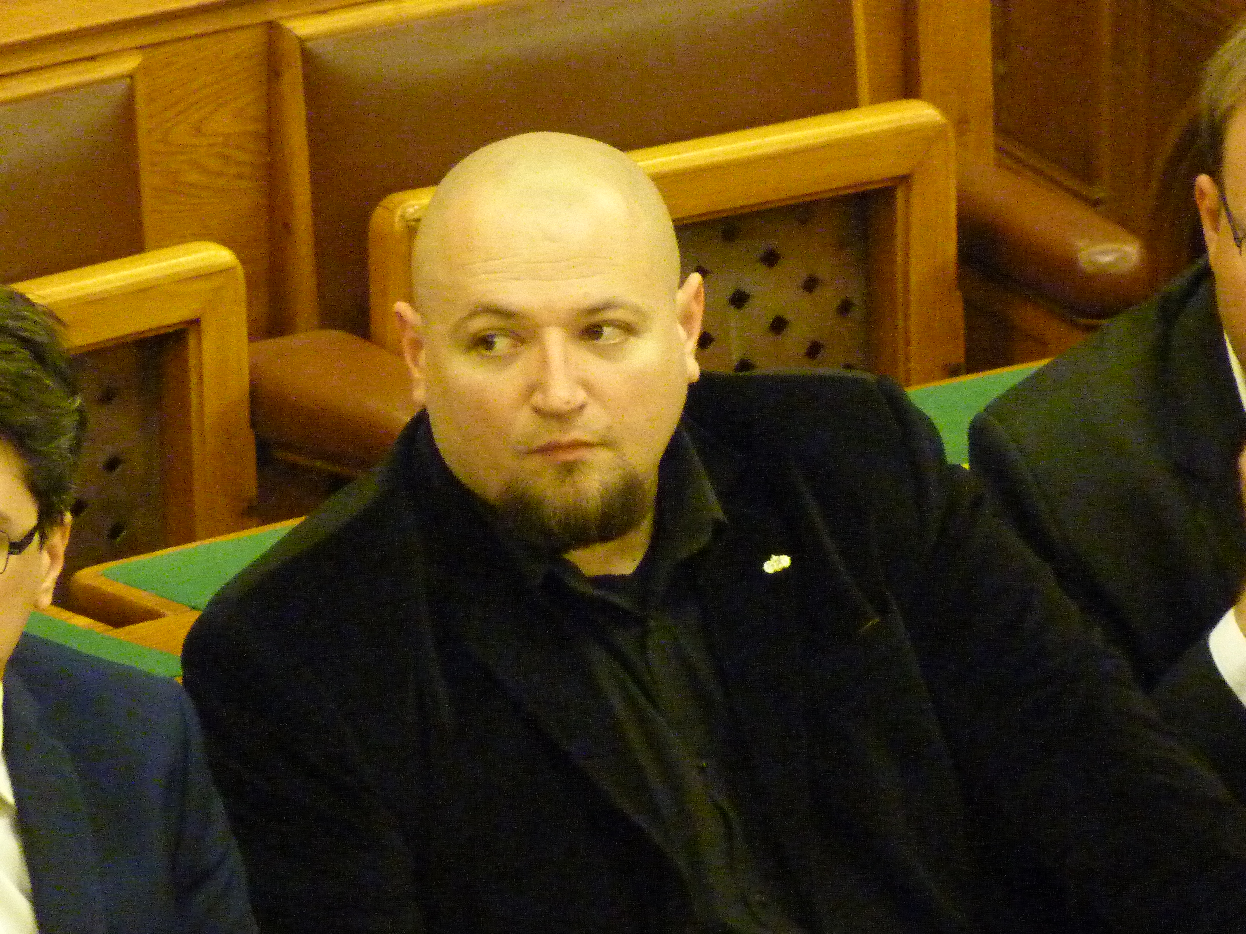 Taken on the 29th of February, 2016. Session of the Hungarian Parliament. Budapest, Hungary. Balázs Ander